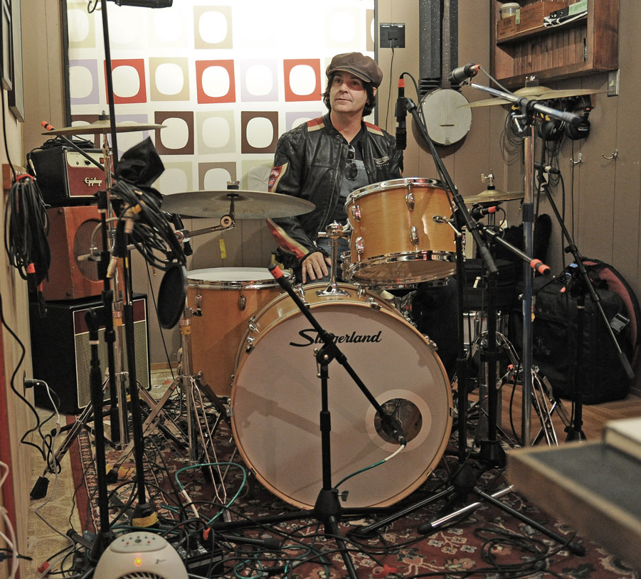 Marc Danzeisen full shot at his drum kit